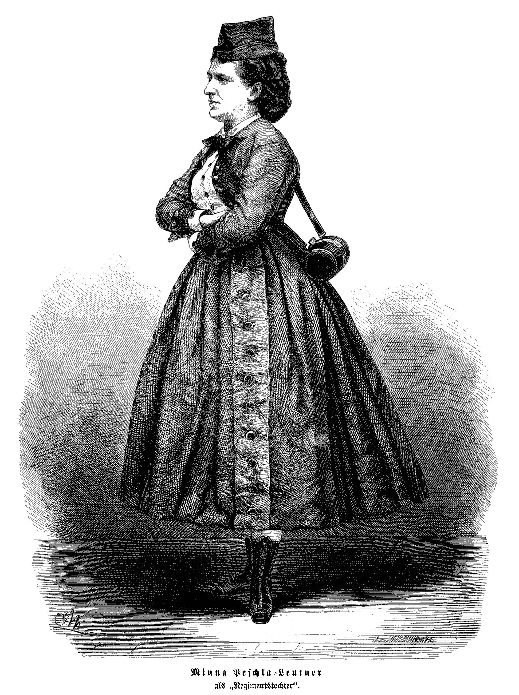 caption: "Minna Peschka-Leutnerals „Regimentstochter“."